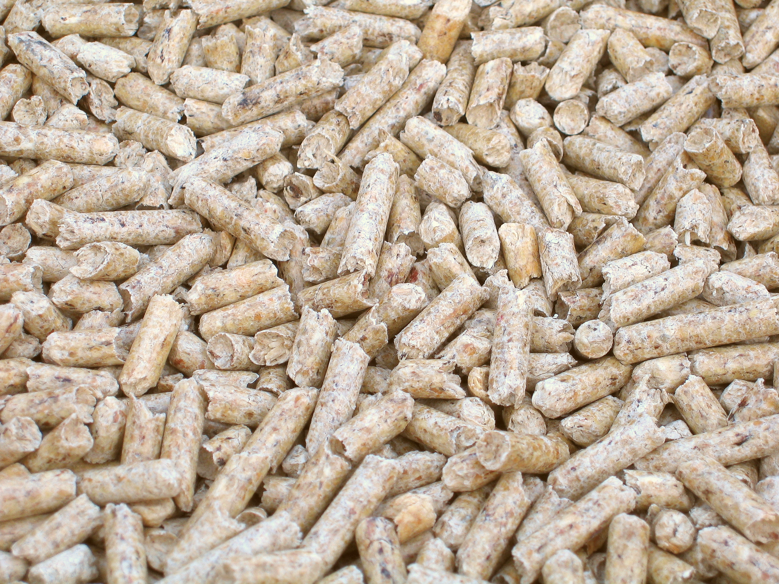 Wood pellets